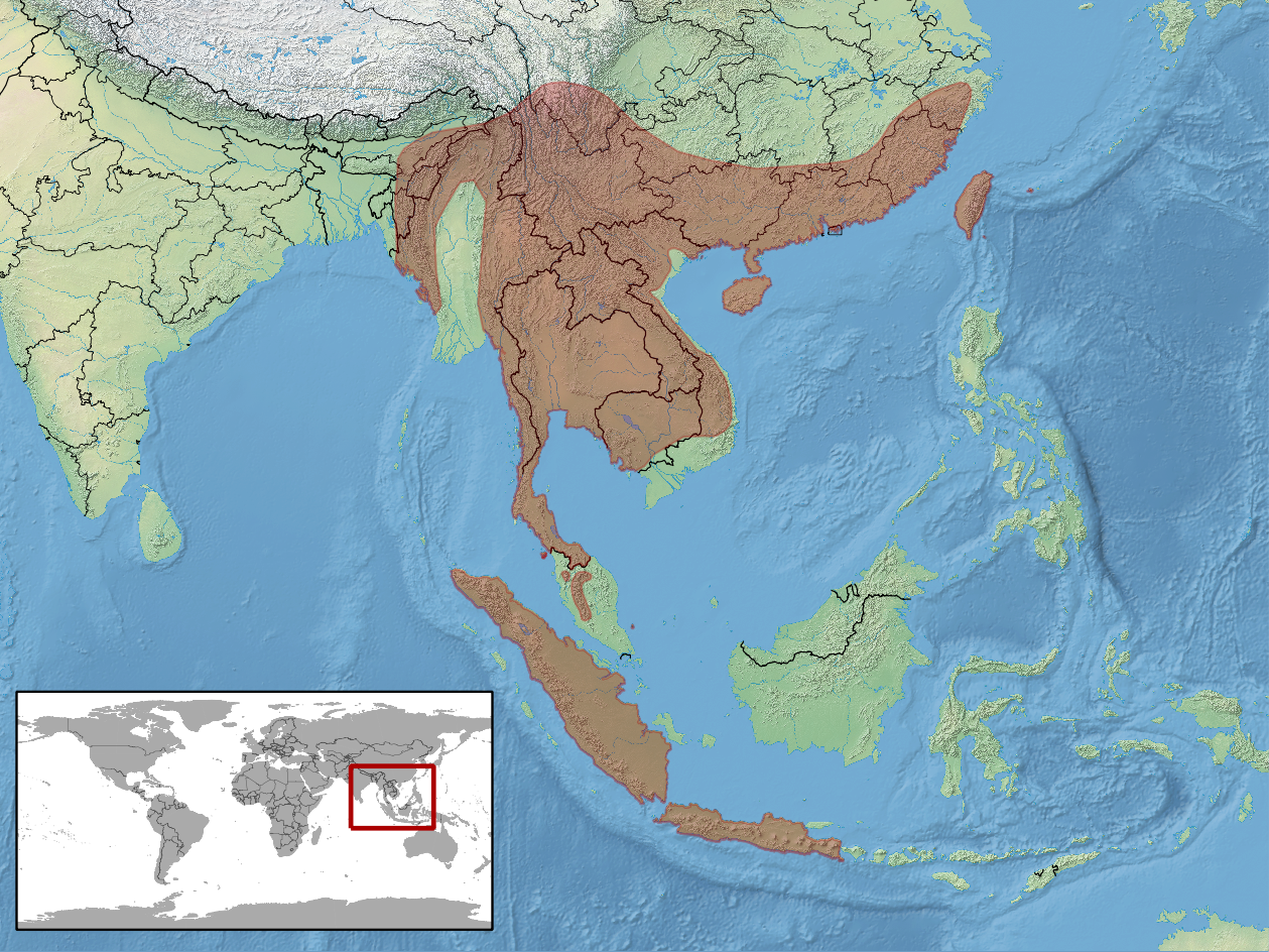 geographic distribution of Calamaria pavimentata (Cambodia; China (Hainan); India (Assam); Japan; Lao People's Democratic Republic; Malaysia (Peninsular Malaysia); Myanmar; Taiwan, Province of China; Thailand; Viet Nam)